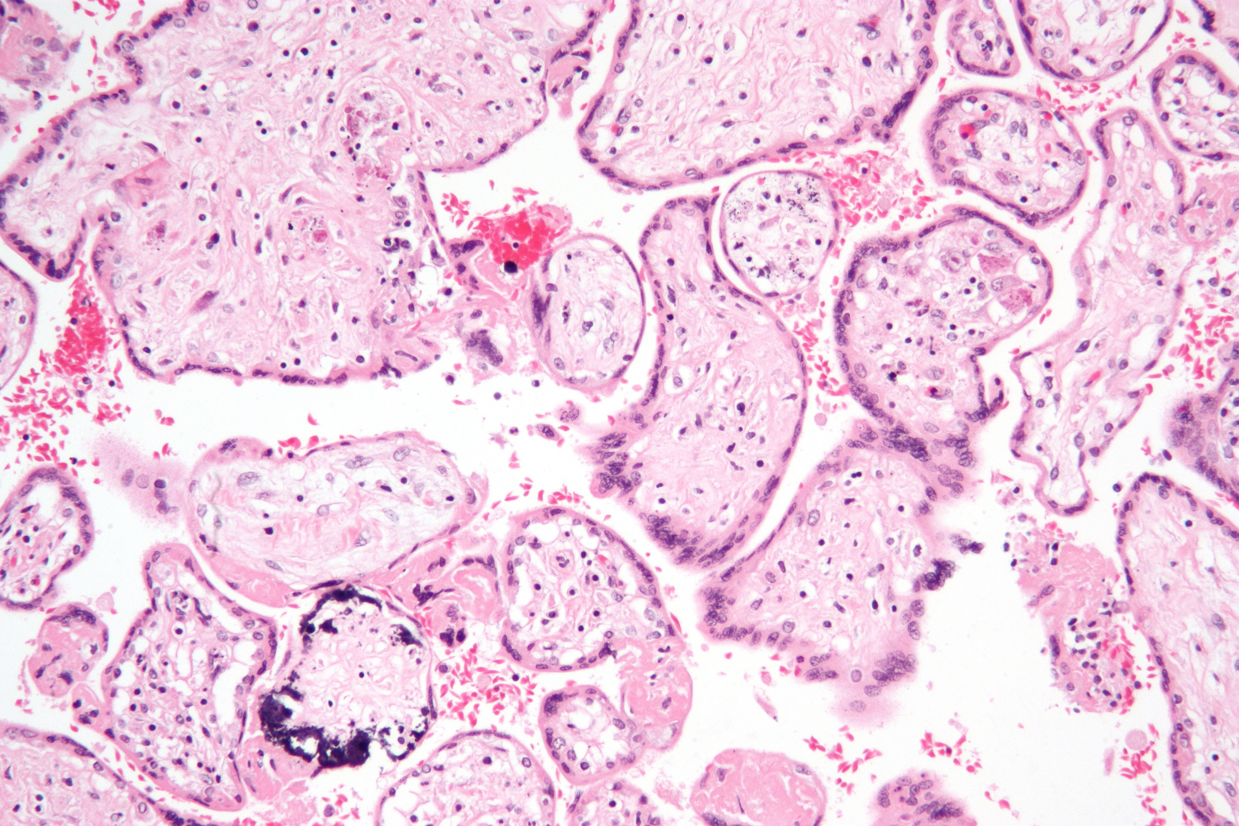 Micrograph of cytomegalovirus (CMV) placentitis. H&E stain. CMV is a TORCH infection. Compared to chorioamnionitis, TORCH infection are fairly uncommon. They may result in an abortion (miscarriage). The villi in the image have marked inflammation that is predominately lymphocytic. Characteristic CMV cells and CMV viral inclusions are seen on the image (upper-right). The red blood cells (RBCs) surrounding the chorionic villi are maternal RBCs. Related images Field #1. Close-up of Field #1 - shows the characteristic nucleus Field #2. Close-up of Field #2 - shows the characteristic nucleus